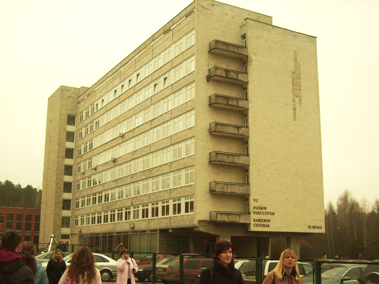 Vilnius University Physics faculty building